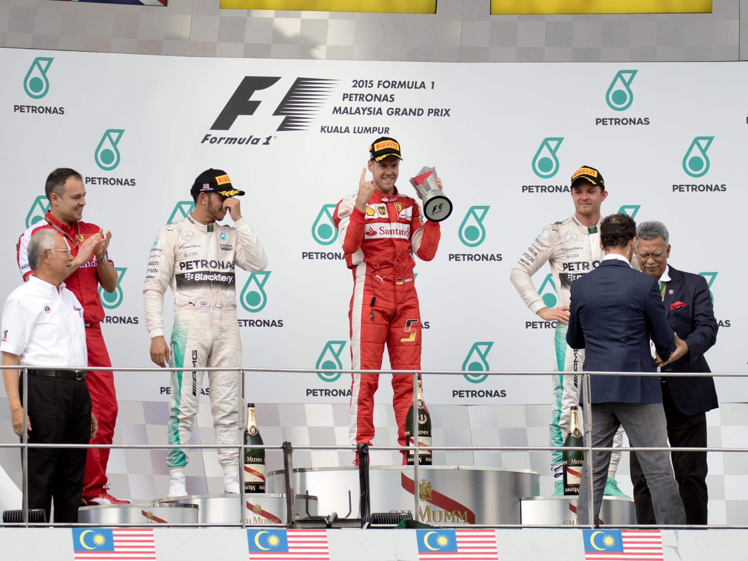 Formula One 2015 Rd.2 Malaysian GP: Sebastian Vettel (Ferrari), Lewis Hamilton (Mercedes GP) and Nico Rosberg (Mercedes GP)